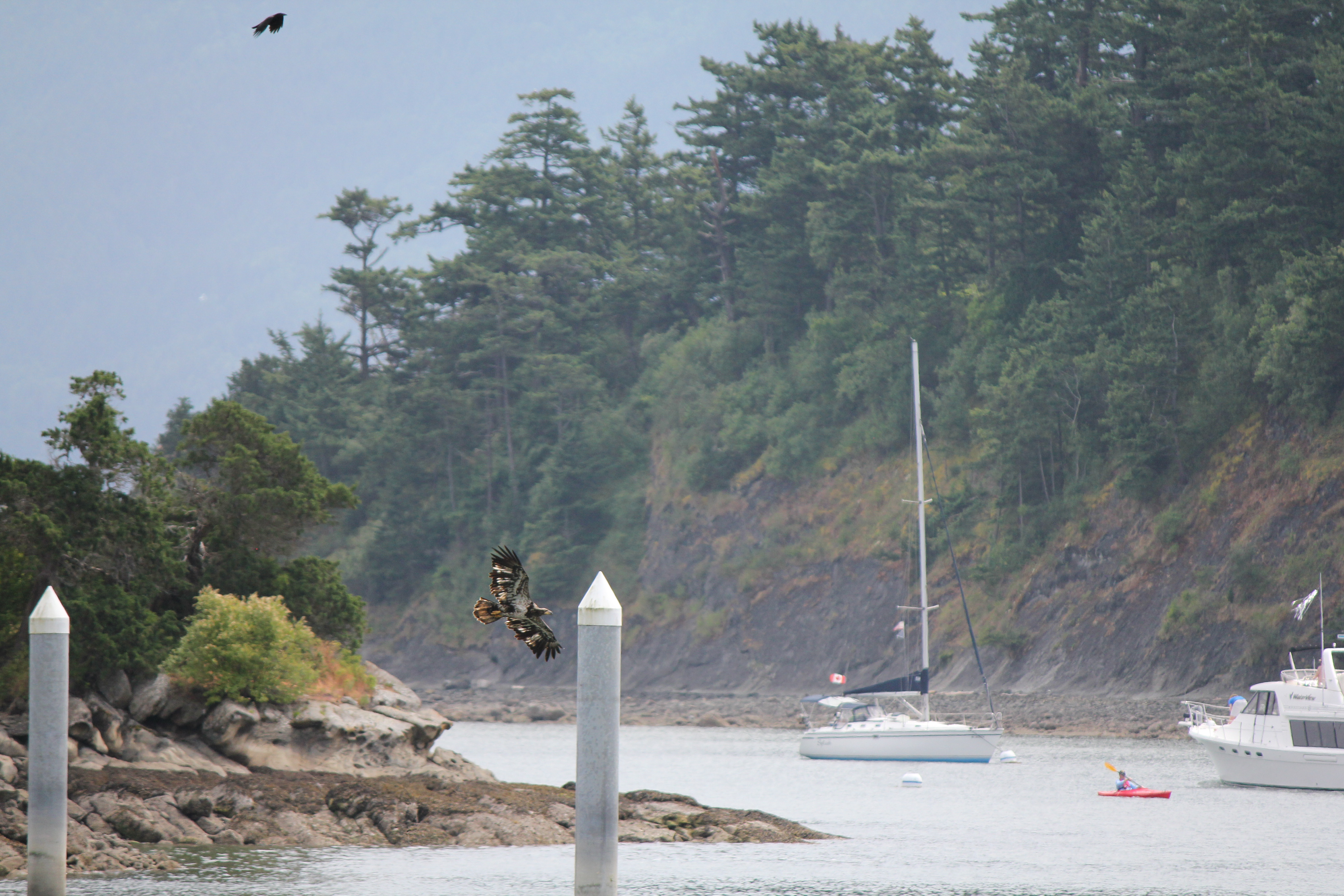 An immature Bald Eagle soars over Sucia Island, Washington, USA.